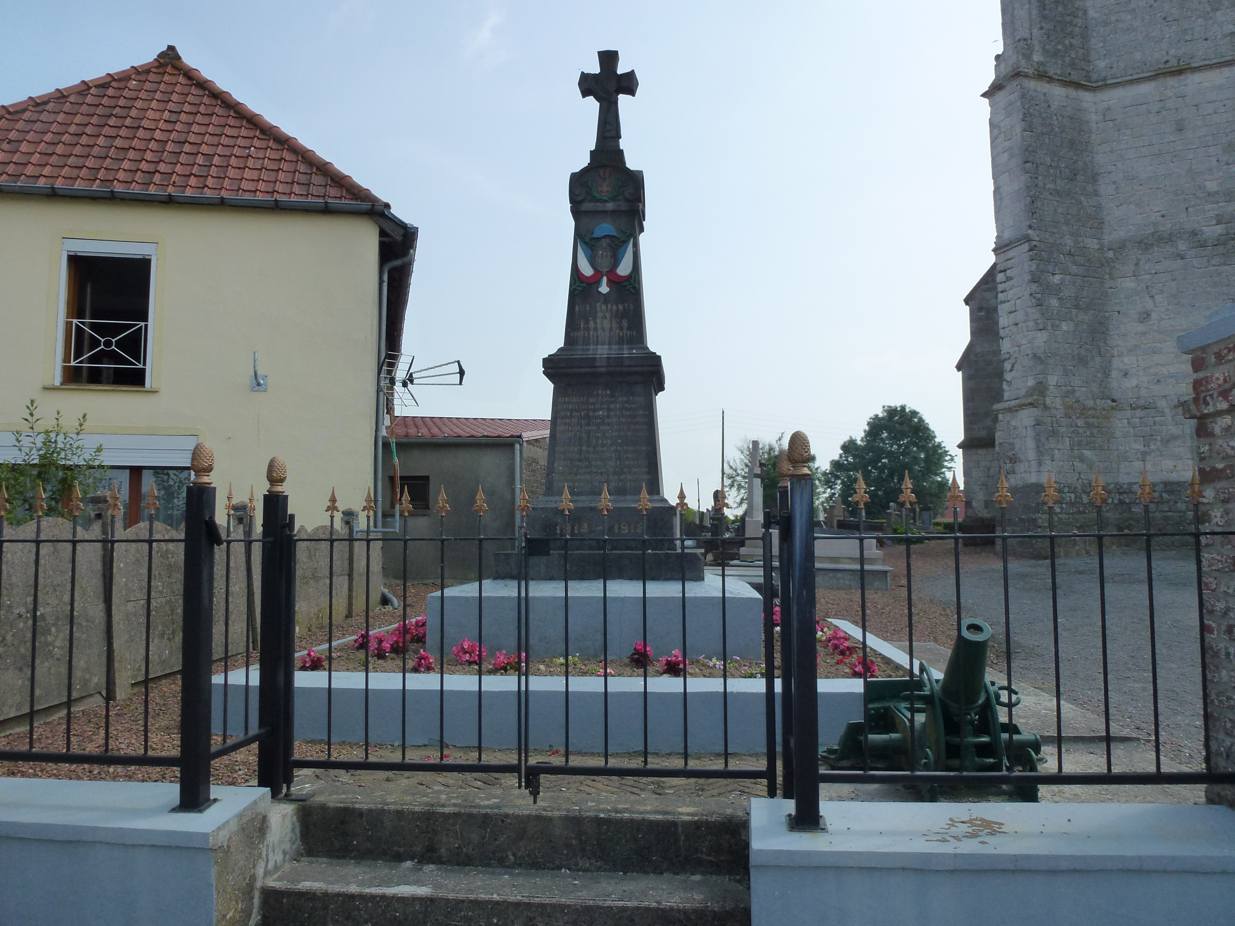 Laires (Pas-de-Calais) monument aux morts